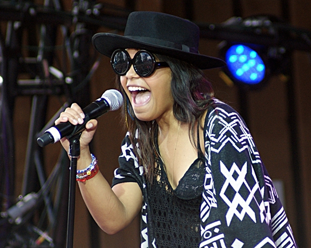 Fefe Dobson, born February 28, 1985 in Scarborough, Ontario, is a Canadian singer-songwriter and model. Her 2003 self-titled debut album earned her two Juno Award nominations. Photo taken on July 11, 2011 during a live performance at the Calgary Stampede on the Coca-Cola Stage in Calgary, Alberta, Canada.